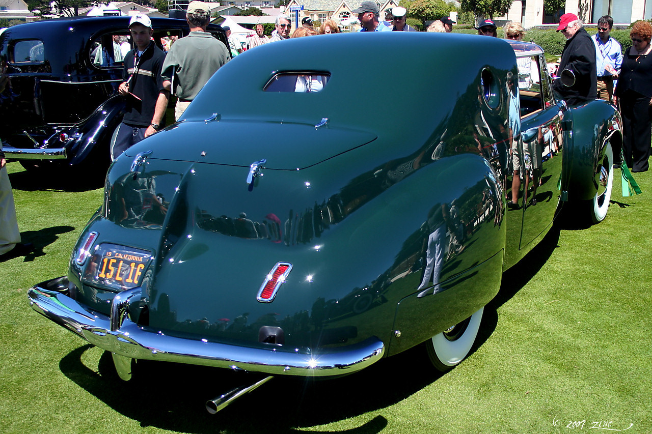 1941 Lincoln Continental Derham Coupe Pebble Beach Concours d'Elegance 2007